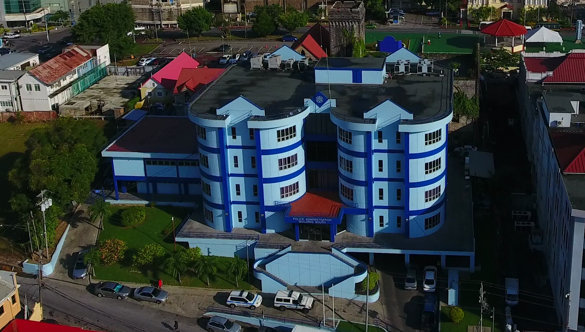 Police headquarter on Irving Street corner Harris Street, San Fernando, Trinidad and Tobago. Behind the building are the ruins of the old police headqarter, and Harris Promenade behind that. Photo taken as part of the Southern Trinidad Aerial Photo Project, a small project sponsored by WMDE. Drone used: DJI Phantom 4. Snapshot taken from video footage via VLC, then cropped with IrfanView.